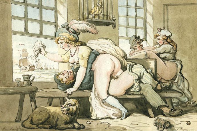 Caricature by Thomas Rowlandson